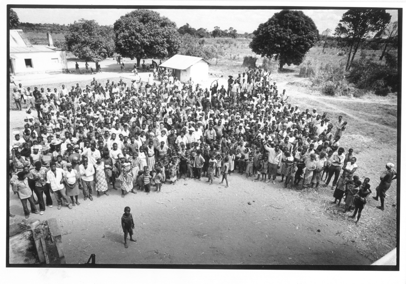 This is part of the group of 850 participants of the Matzinho Organization Workshop held in 1992 in war-torn Mozambique